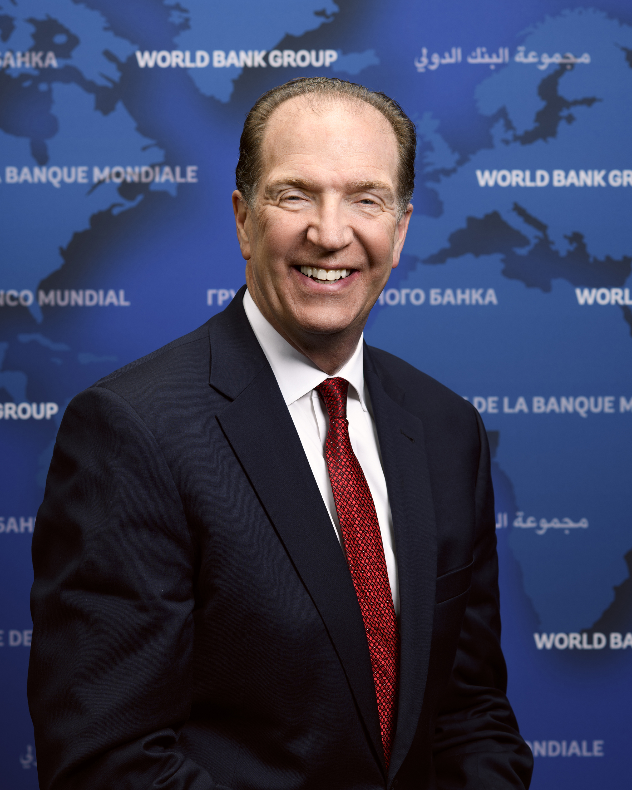 David Malpass, president of the World Bank Group